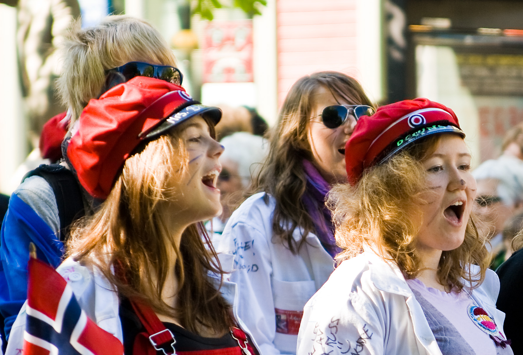 Russ girls during the children's parade in Trondheim on the Norwegian national day, 17 May.